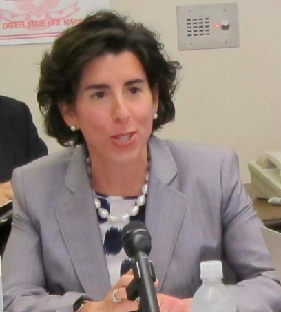 Gina Raimondo addresses a group